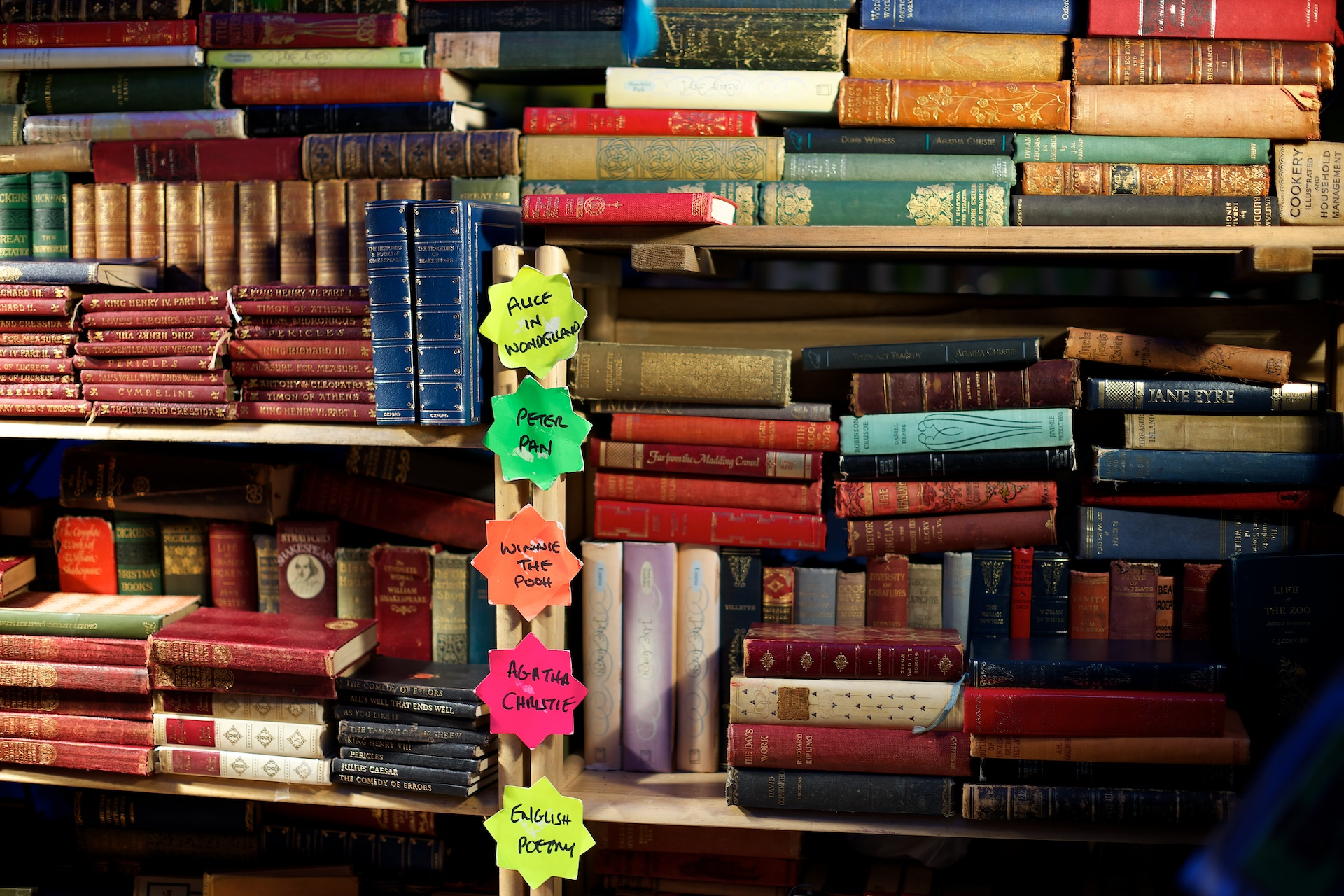 Portobello Road Market